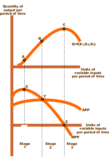 Stages of production small